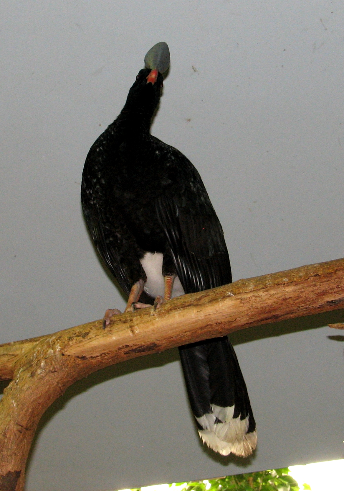 Northern Helmeted Curassow - Pauxi pauxi Taken at Cincinnati zoo